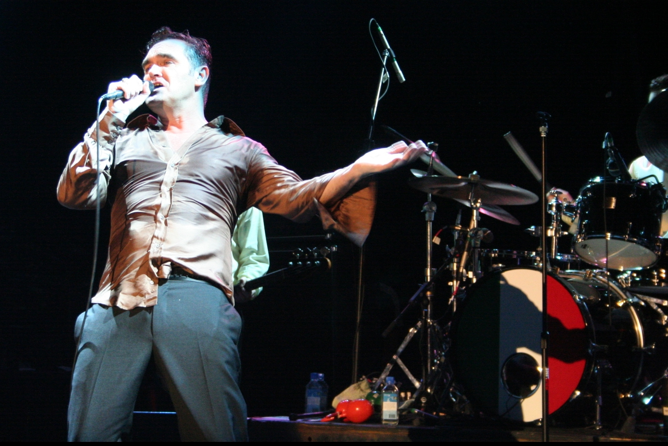 Morrissey at the 2006 edition of the South by Southwest festival (SXSW)